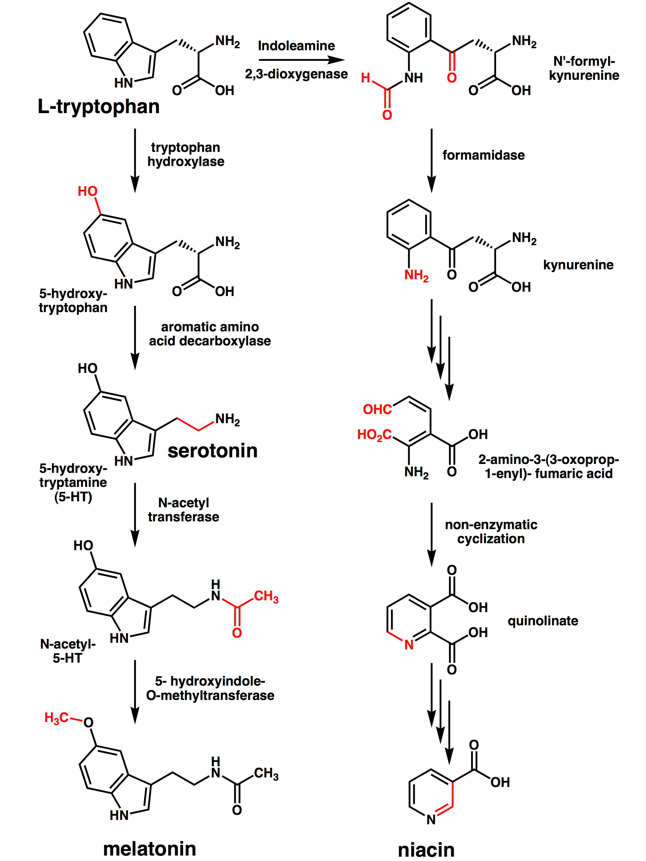 Metabolism of L-tryptophan into serotonin and melatonin (left) and niacin (right). Transformed functional groups after each chemical reaction are highlighted in red.